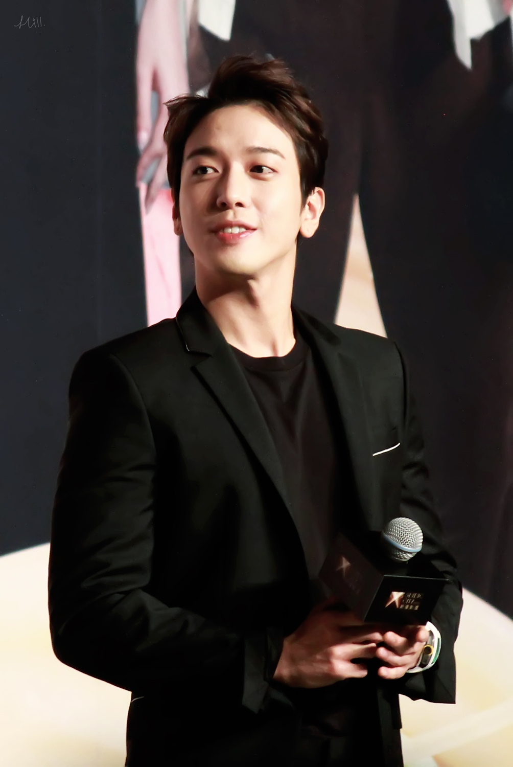 Jung Yong-hwa promoting his first film Cook Up a Storm at a meet and greet session at Studio City in Macau, Hong Kong on January 15, 2017.